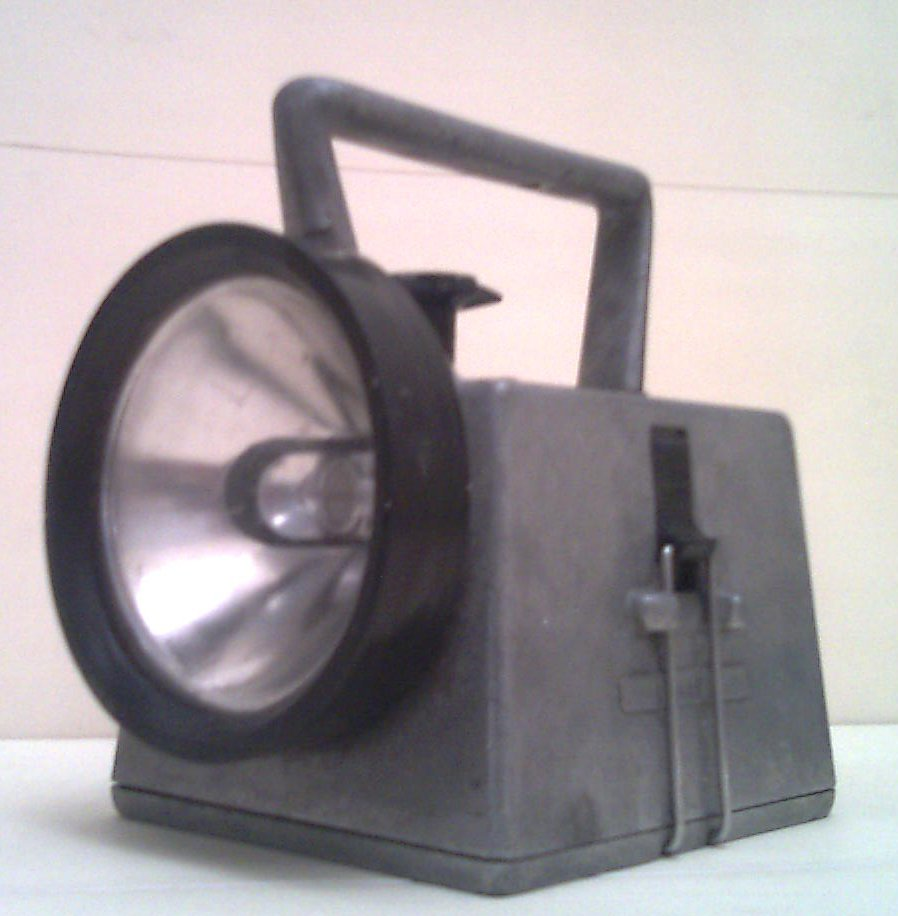 3/4 front-left view of British Rail Bardic hand-lamp